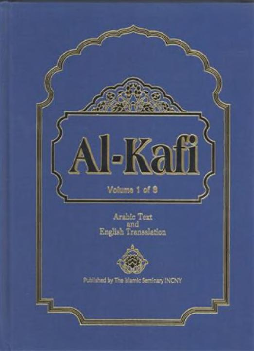 Al Kafi Cover Page